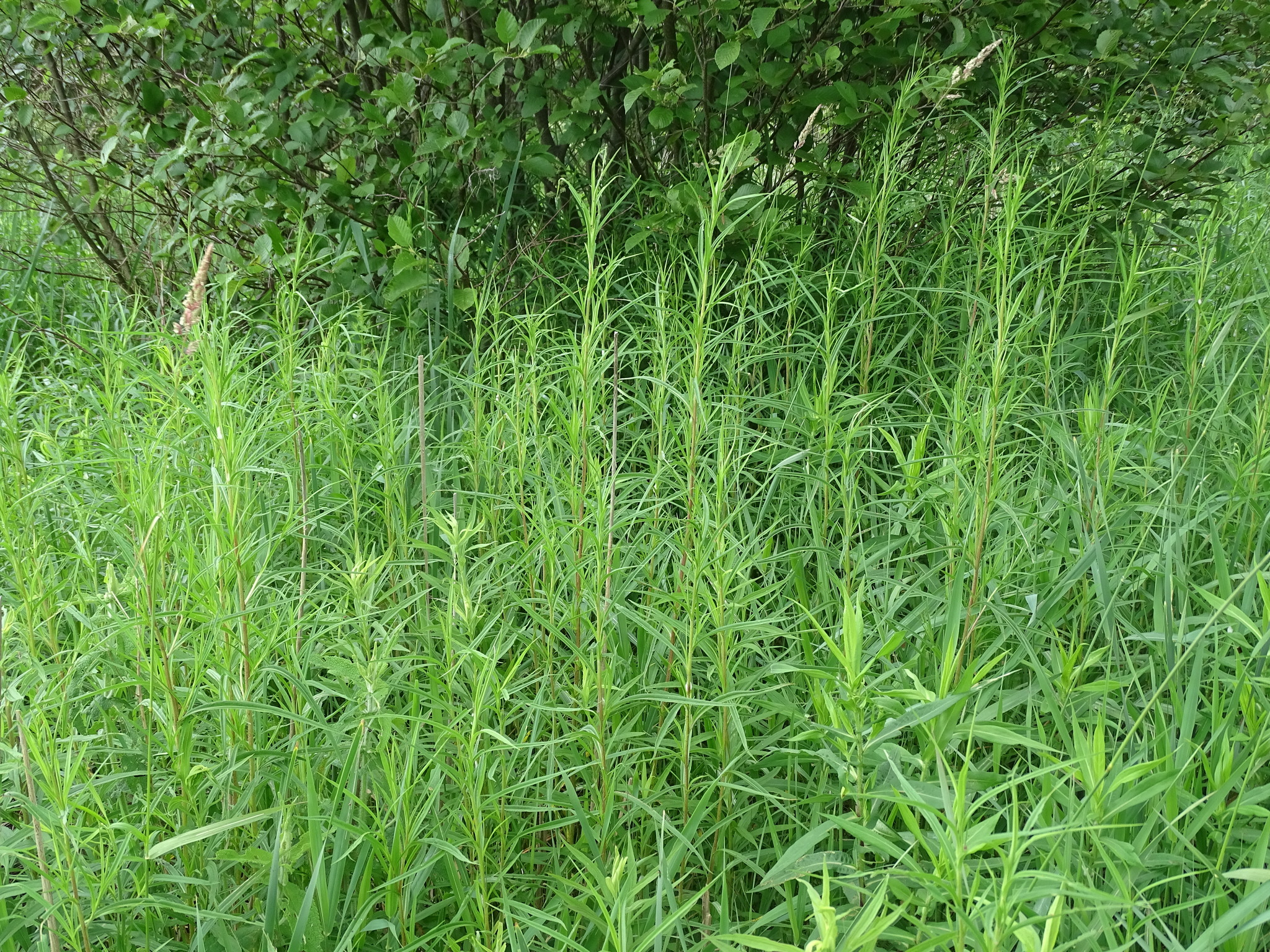 A large cluster of Symphyotrichum lanceolatum (lance-leaved aster) prior to flowering, presumably a single clone. Ontario, Canada. Original